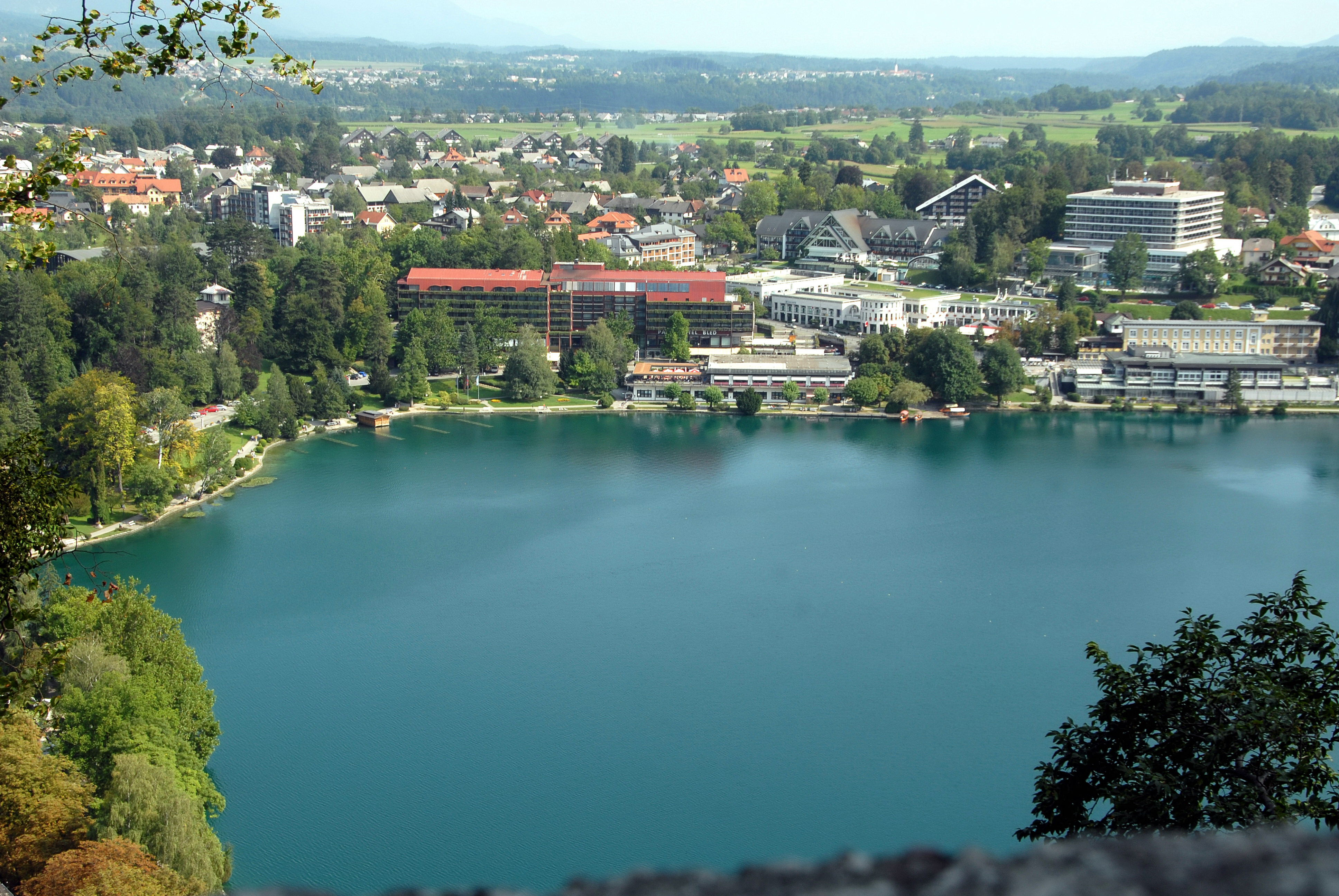 View from the Bled castle at the Lake Bled and the village Bled, Slovenia